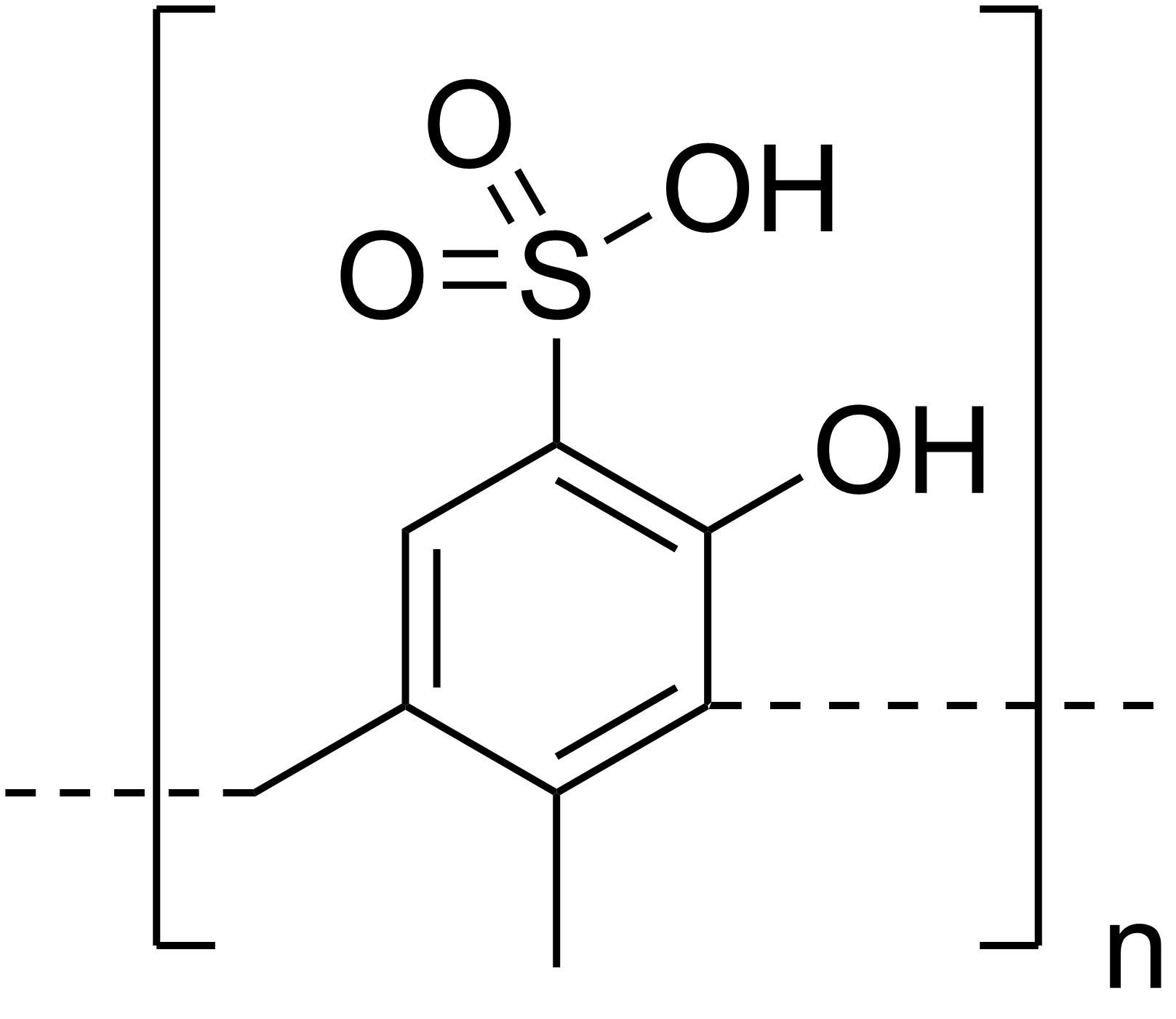 chemical structure of policresulen